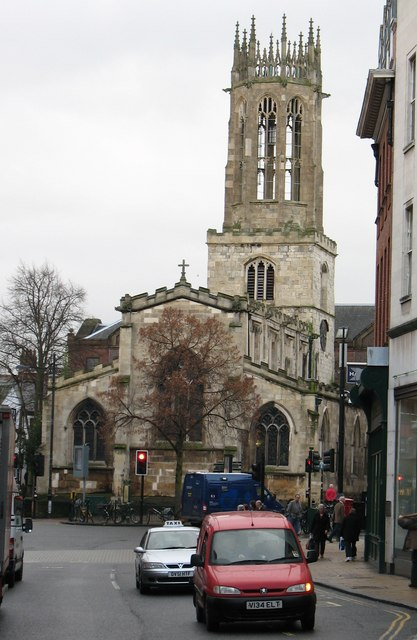 All Saints , Pavement One of the many medieval parish churches still surviving in the centre of York. A church has stood on this site since before the Norman conquest, although most of the present building dates from the late 14th and early 15th centuries. The church is notable for its lantern tower [rebuilt 1837] which at one time provided a light for travellers approaching York from the wild country of Galtres Forest to the north.